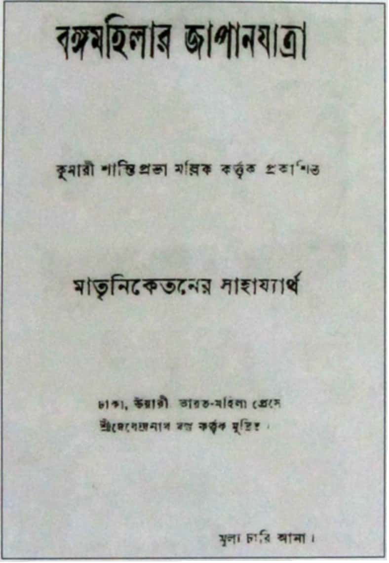 Front page of the book of Bangla mahila Japan jatra, 1915